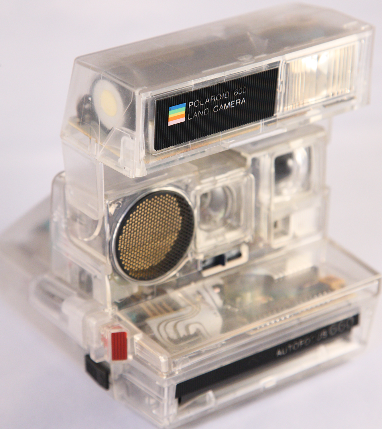 For promotional purposes only.